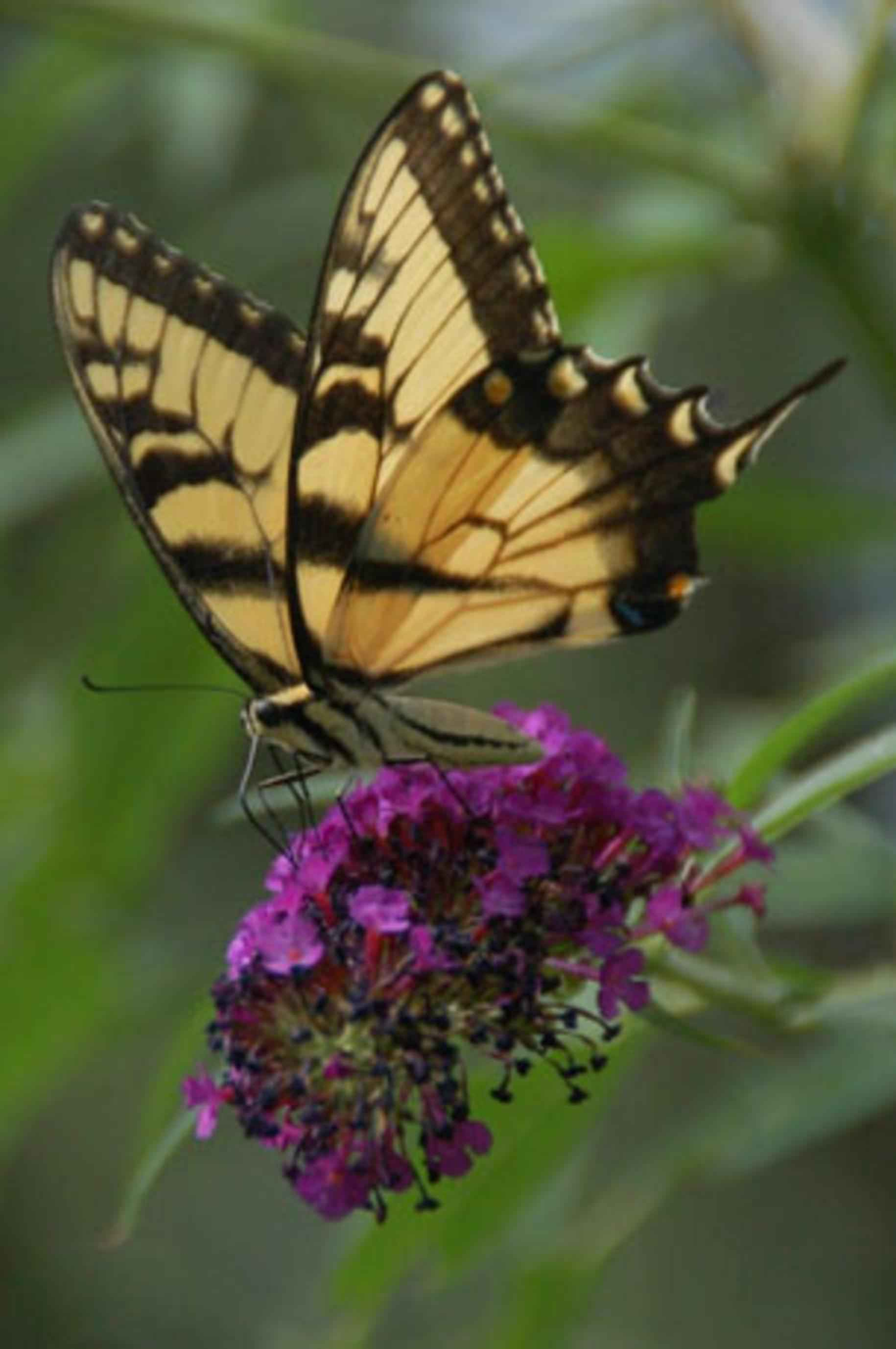 Image title: Butterfly perched on purple flower Image from Public domain images website